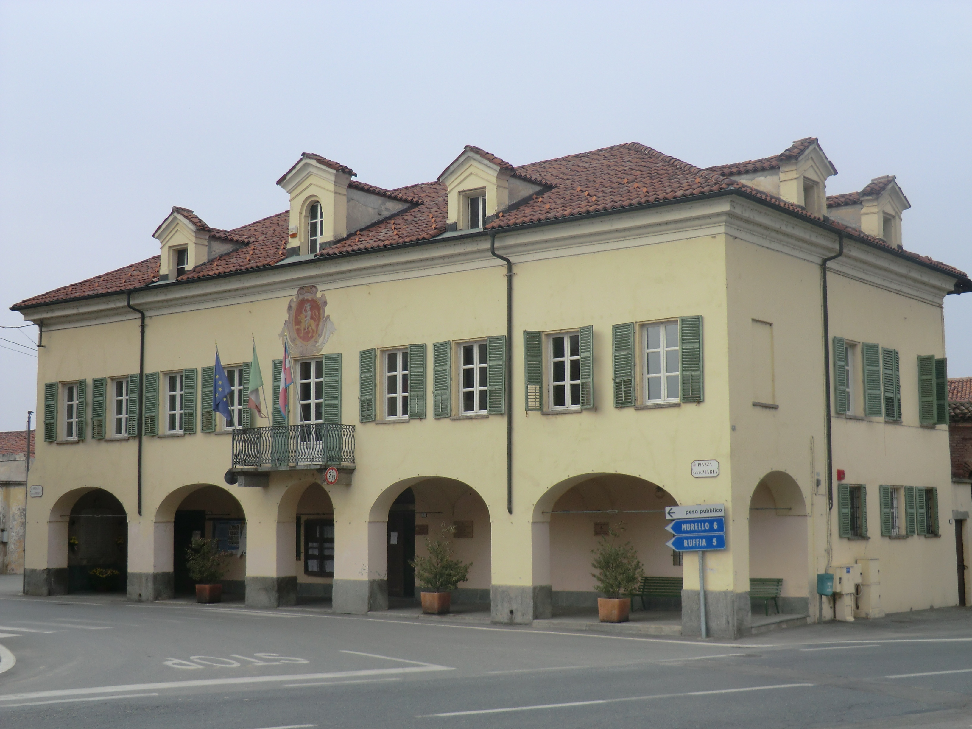 Cavallerleone (Cuneo - Italy): city hall